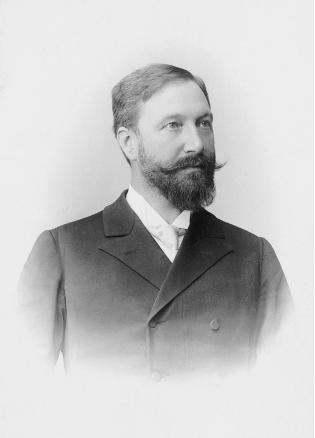 Gabriel Anton (1858–1933) as prof. in Graz, circa 1890.